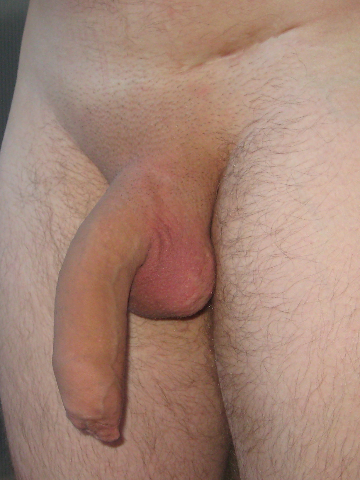 Left testicle was removed from groin region due to cryptorchism. Testicular prosthesis has been set in scrotum.